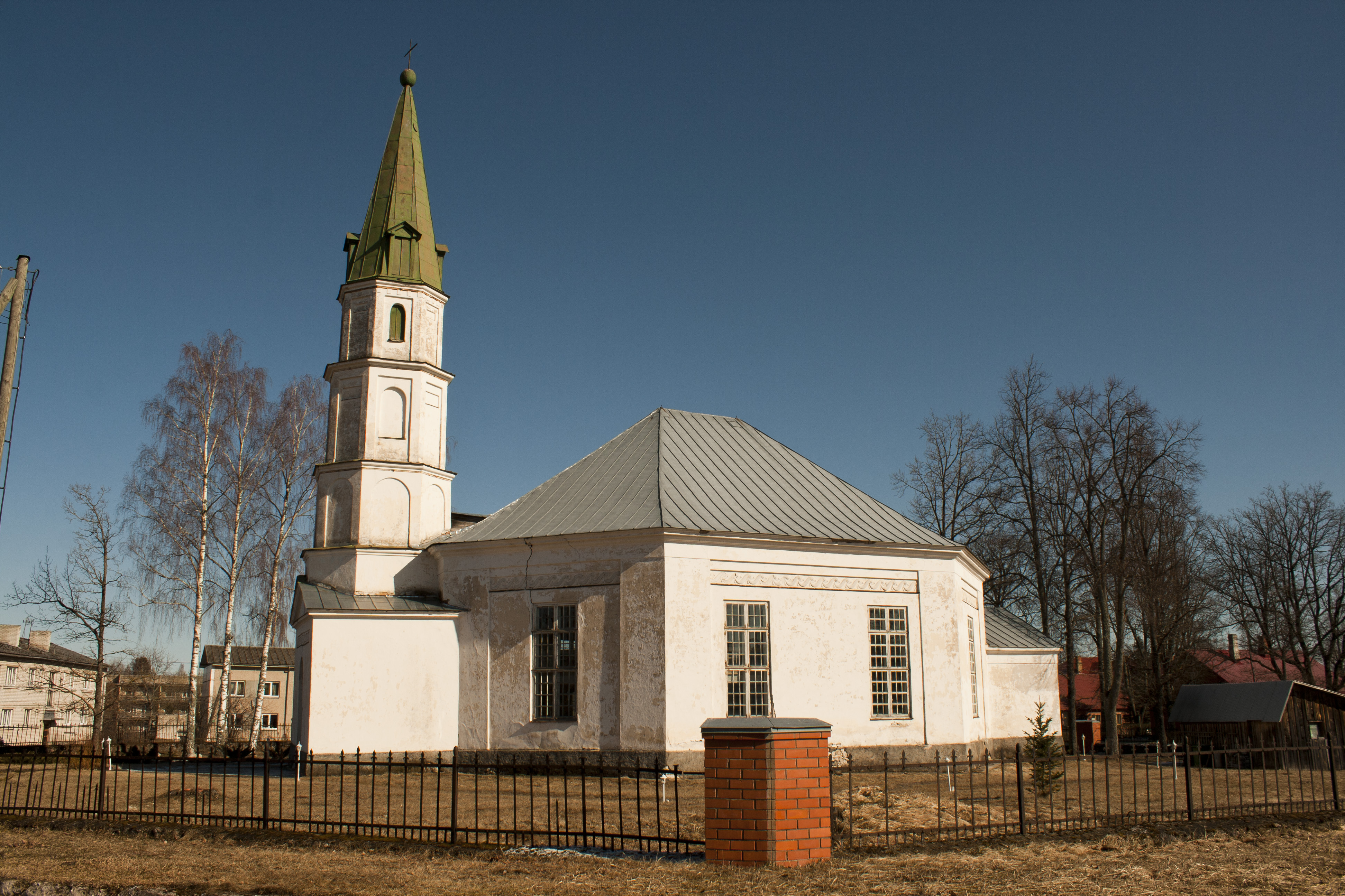 Palsmane Evangelical Lutheran ChurchLatviešu: Palsmanes evaņģēliski luteriskā baznīca